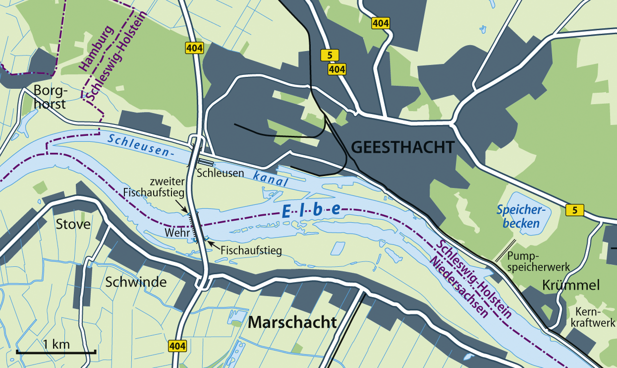 Map of lock and weir in Geesthacht, Germany